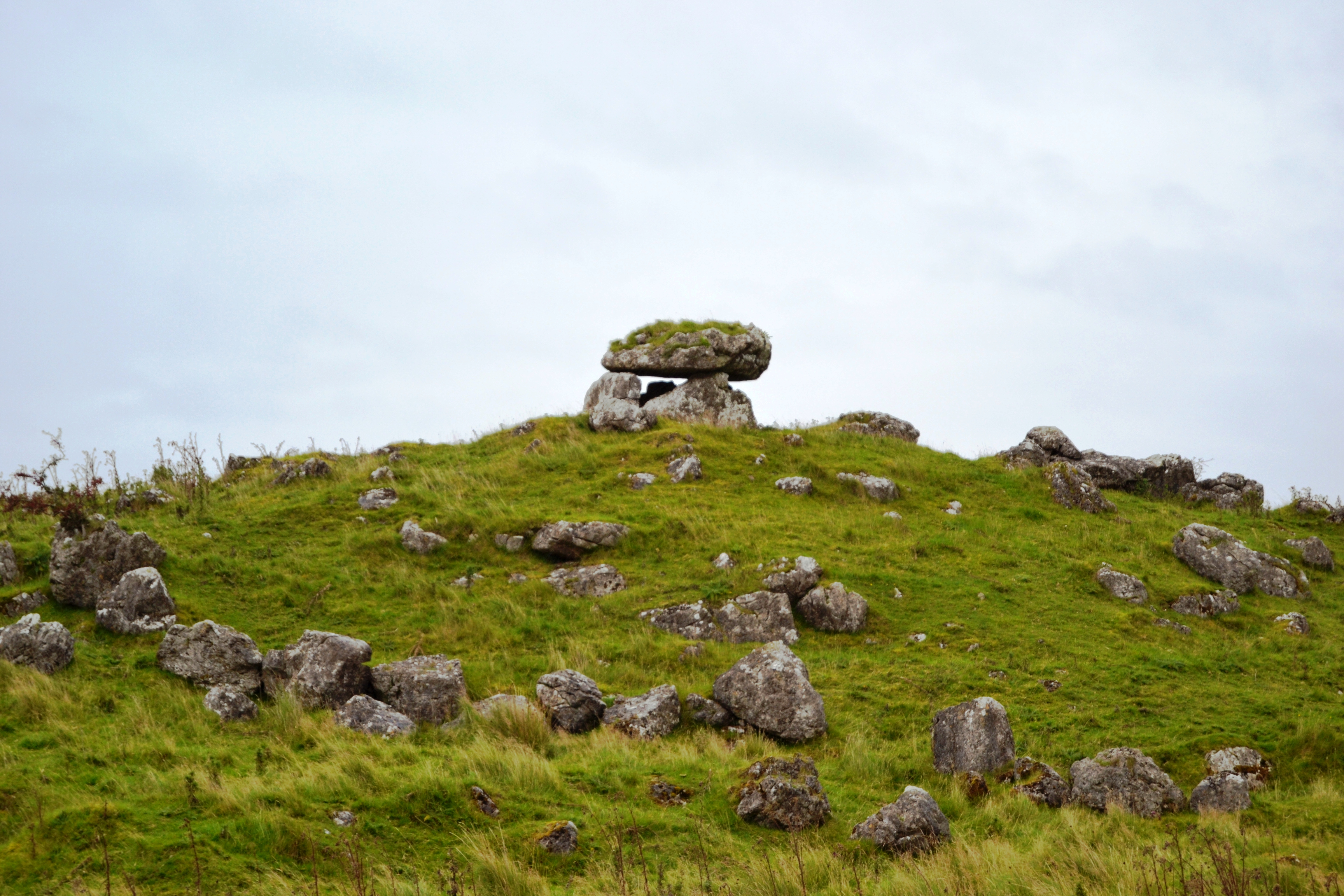 County Roscommon, Scregg Tomb. Wikidata has entry Q33093141 with data related to this item.